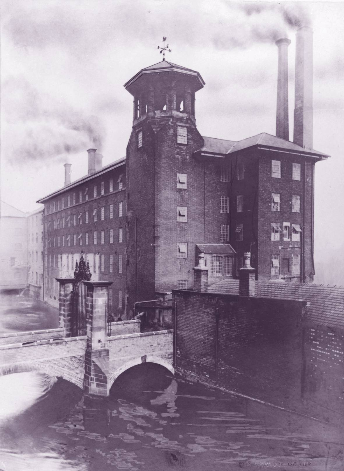 This image dates from before 1910, when a fire destroyed most of the building.